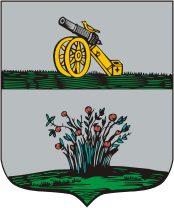 Dukhovshchina (Smolensk oblast), coat of arms (1780)